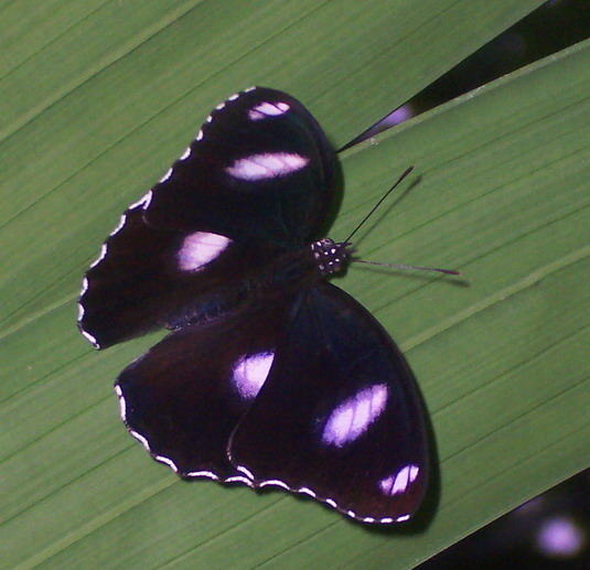 Hypolimnas bolina male from Darmaga, Bogor, West Java, Indonesia